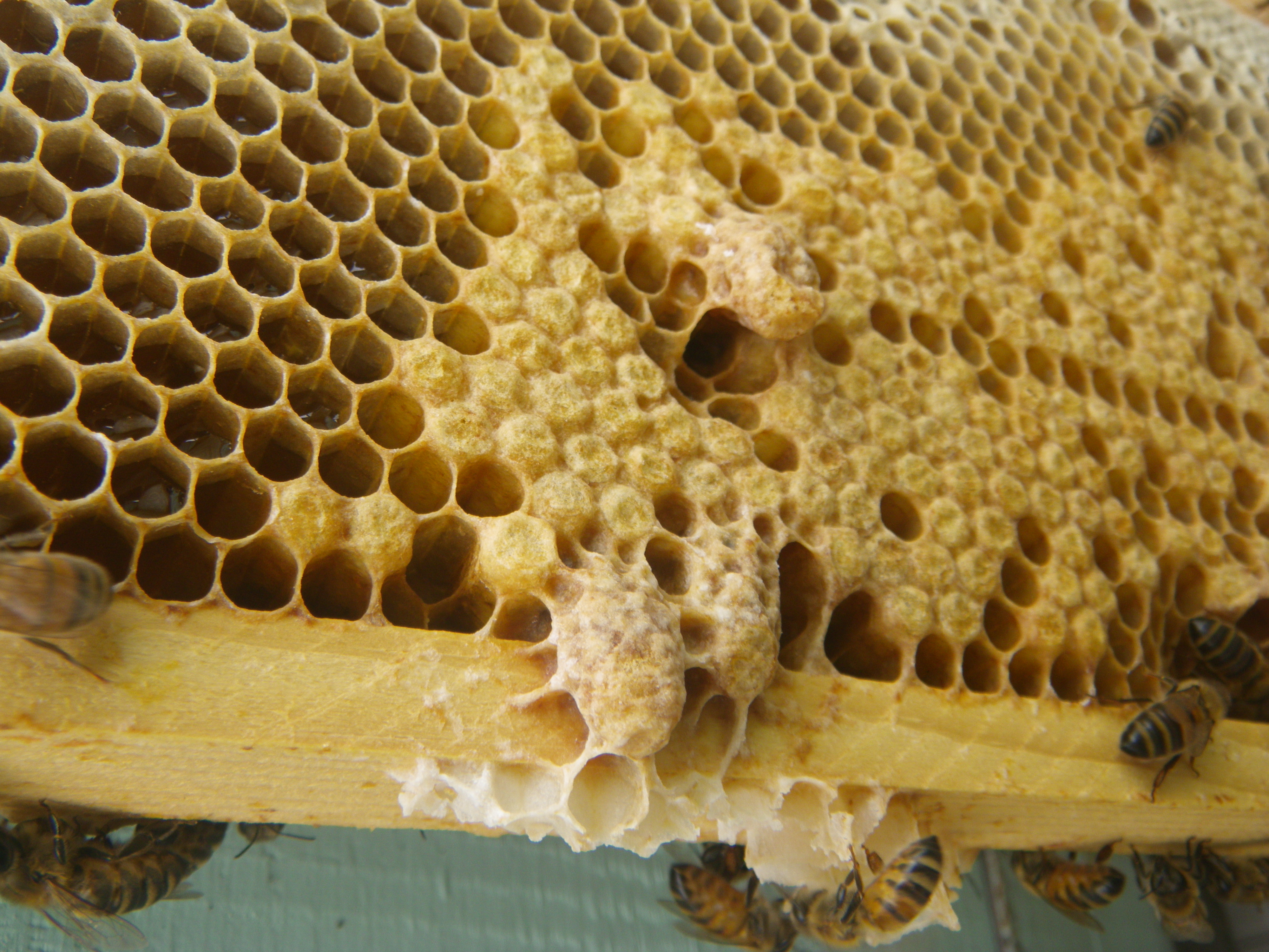 Honey comb with a couple of capped emergency queens almost ready to hatch. More on the difference between supercedure and swarm cells here.